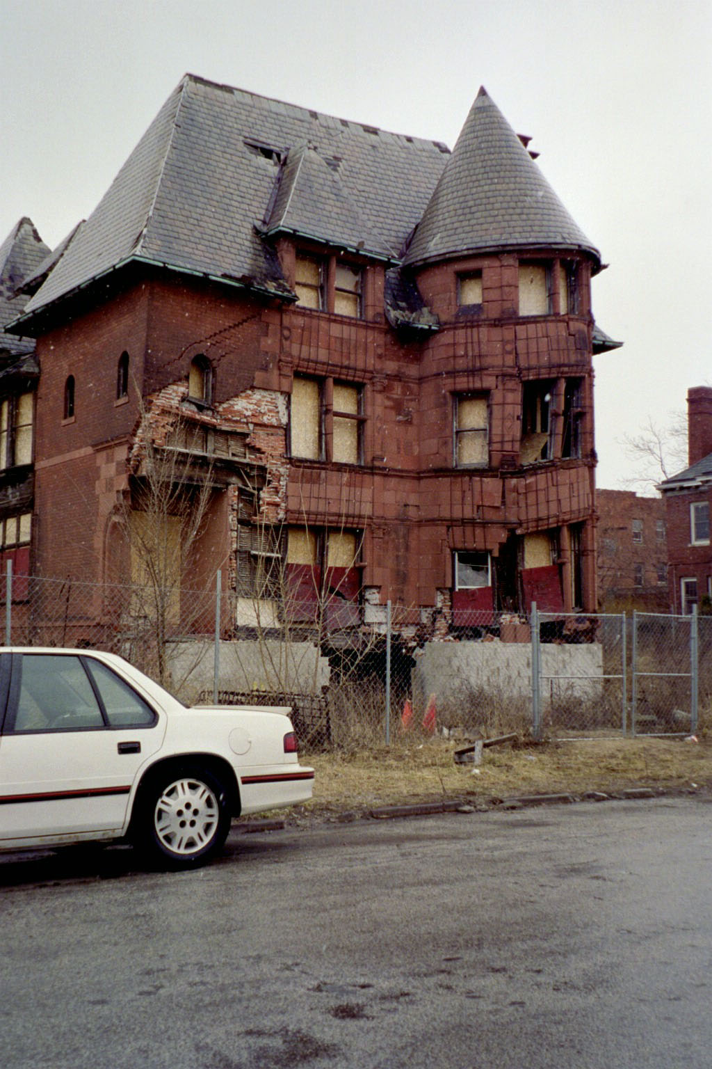 Abandoned, decrepit Victorian-era home in Brush Park, Detroit, Michigan.